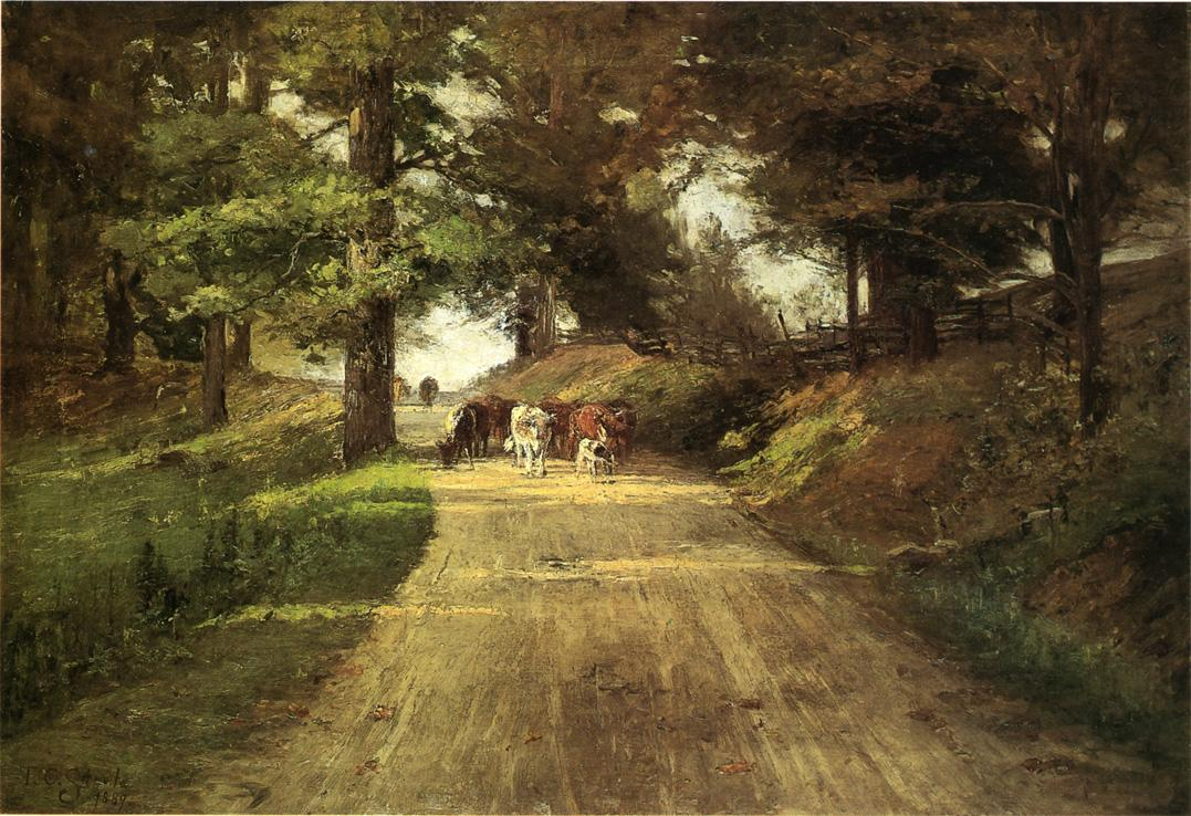 An Indiana Road